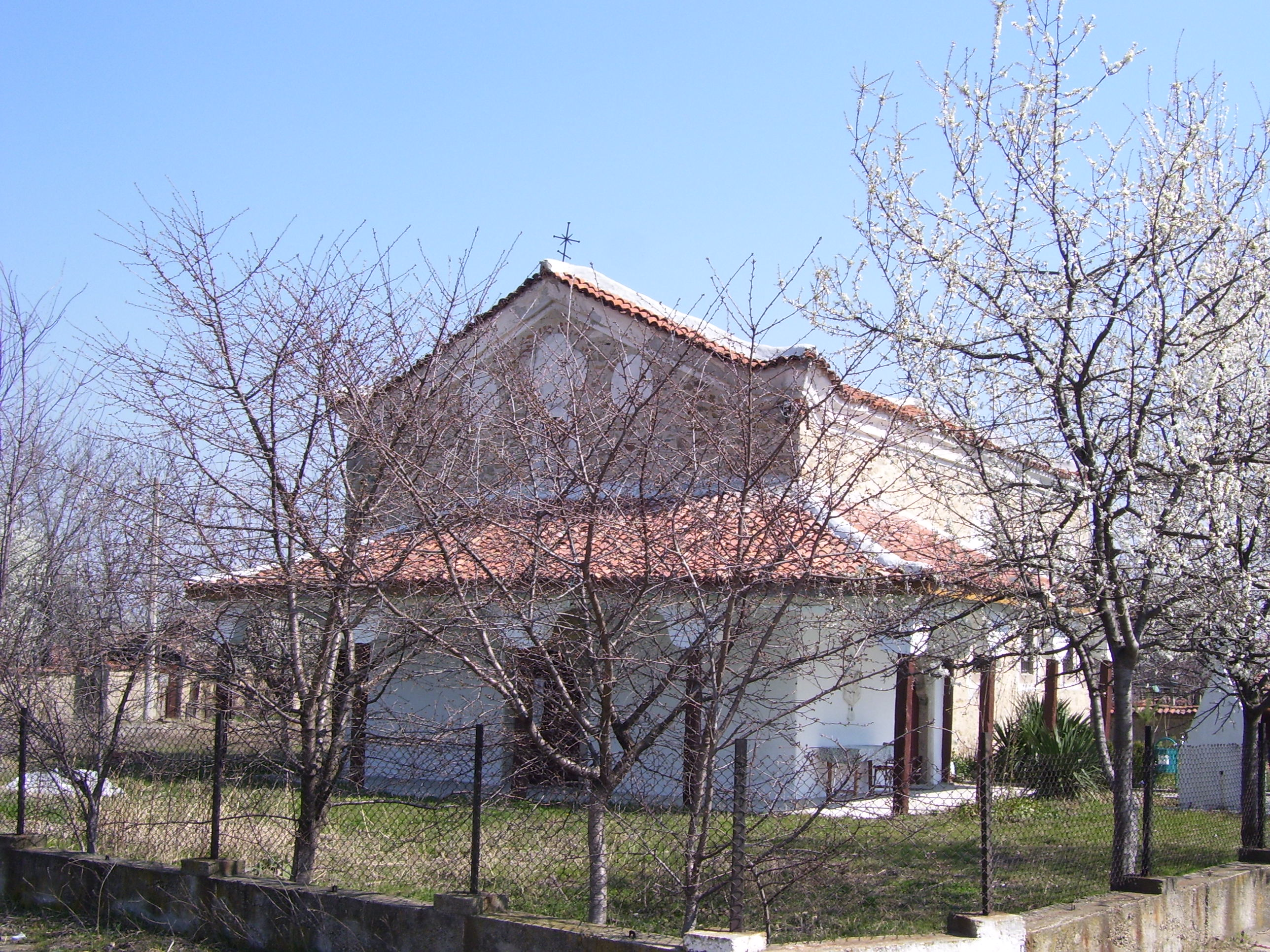 Church "Sveti Nikolay" (Saint Nicholas) in the village of Razhevo, Plovdiv Province, Bulgaria